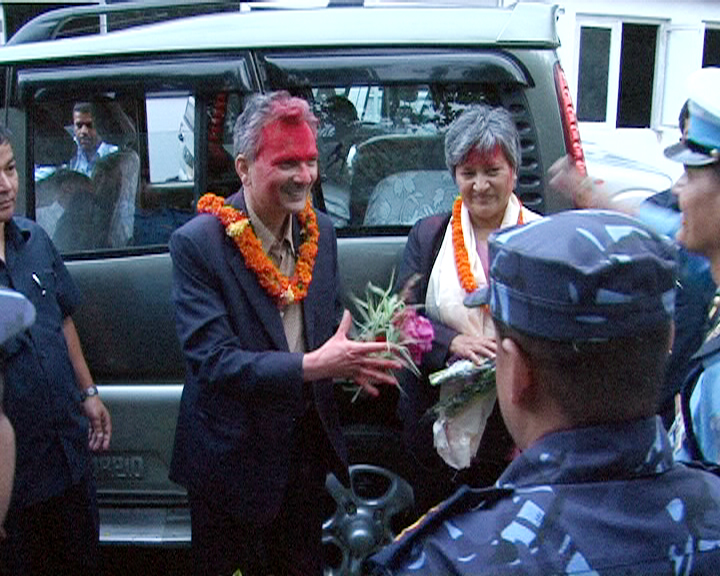 Mr. Baburam bhattarai the 35th Prime Minister of Nepal.